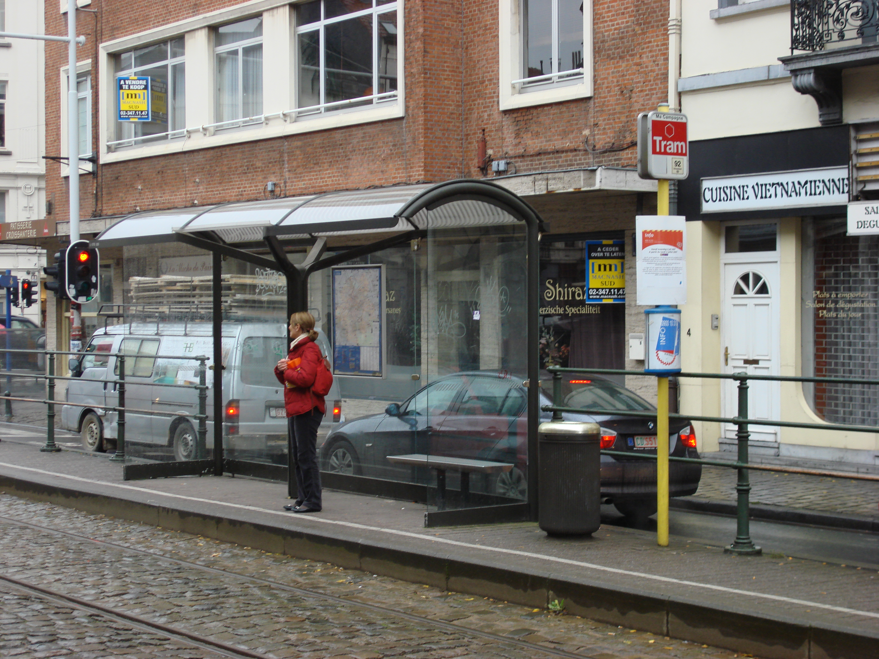 STIB-MIVB Tramstop Ma Campagne